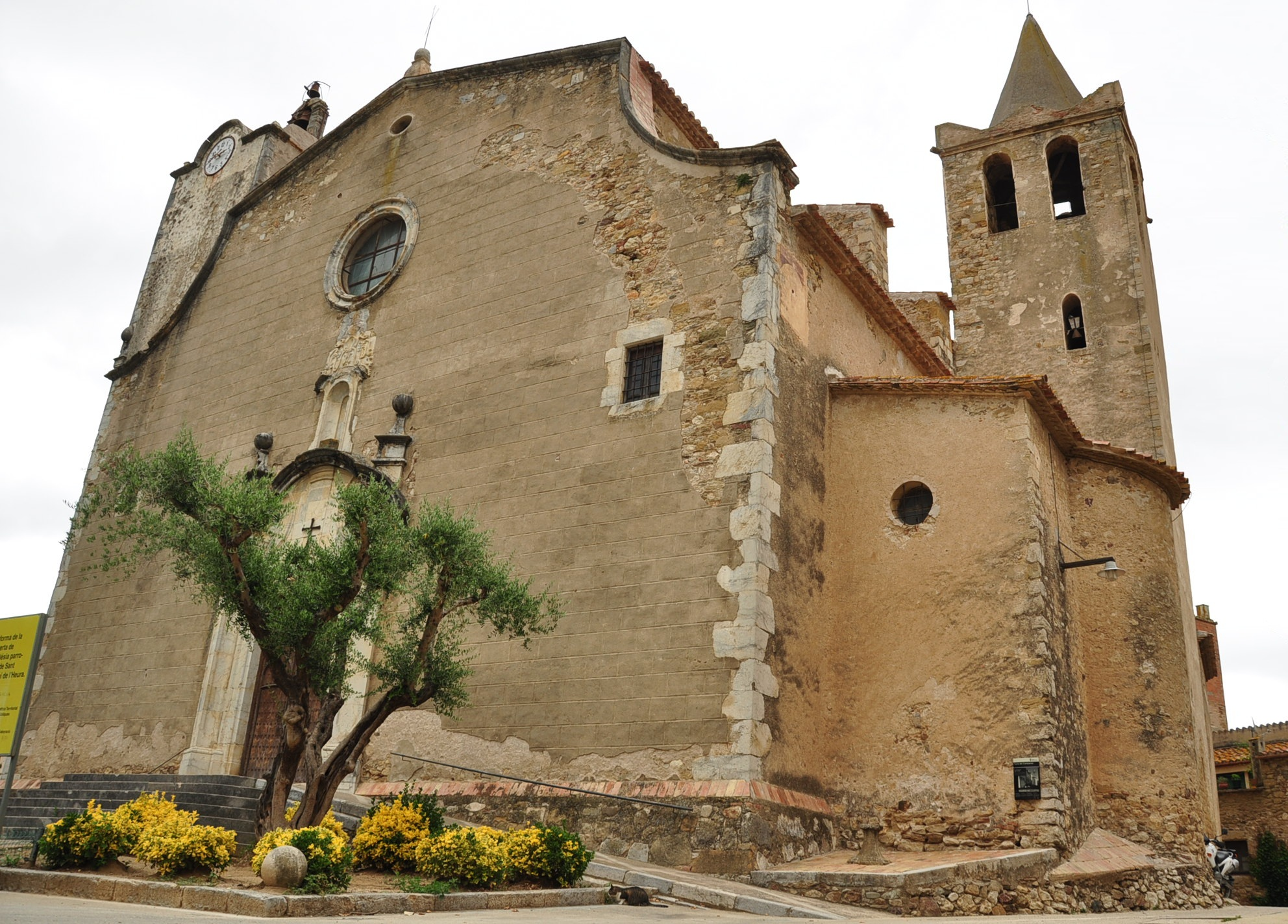 The church of Sant Sadurní de l'Heura was built between 1773 and 1777 (Cruïlles, Monells i Sant Sadurní de l'Heura, District of Baix Empordà, Catalonia, Spain).